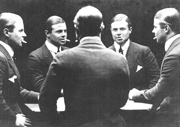 René Plaissety